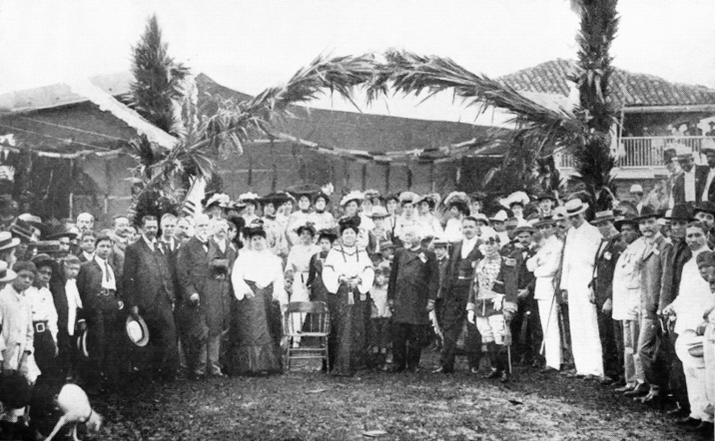 The name of the illustration is the same as the caption in this book about Panama and it's History (c) 1916.